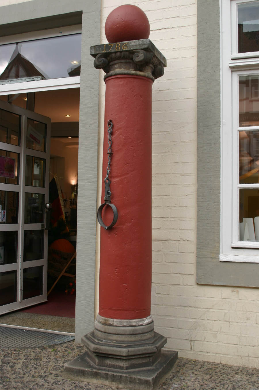 Celle, Old Town-hall, Pillory with iron collar from 18th century for to pillory convict in the public for people and residents.